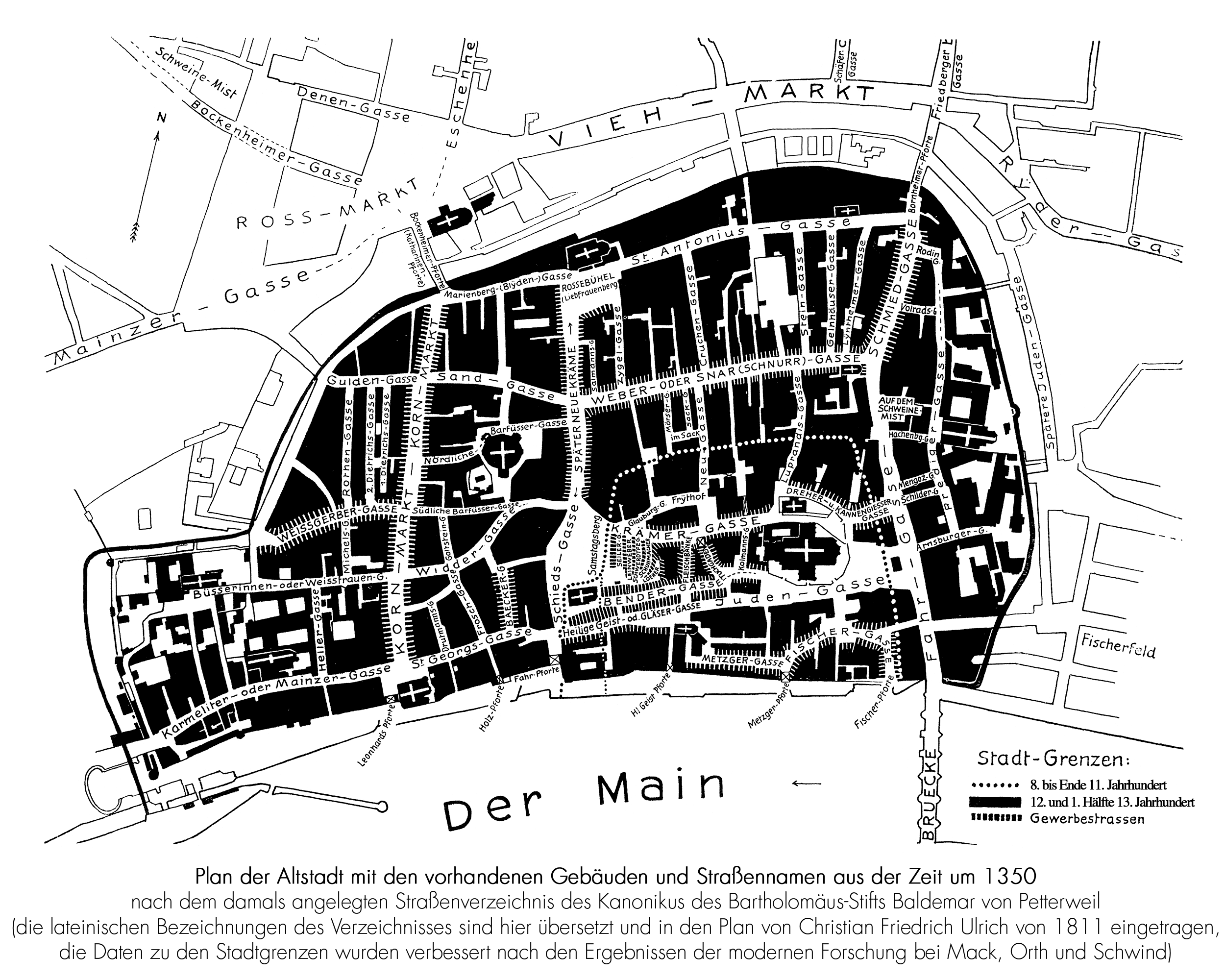 Frankfurt on the Main: Plan of the Altstadt (Old Town) with the buildings and street names present in the time around 1350 according to a street directory created by the canon of the Bartholomaeusstift (Bartholomew Monastery) Baldemar von Petterweil (Baldemar of Petterweil)